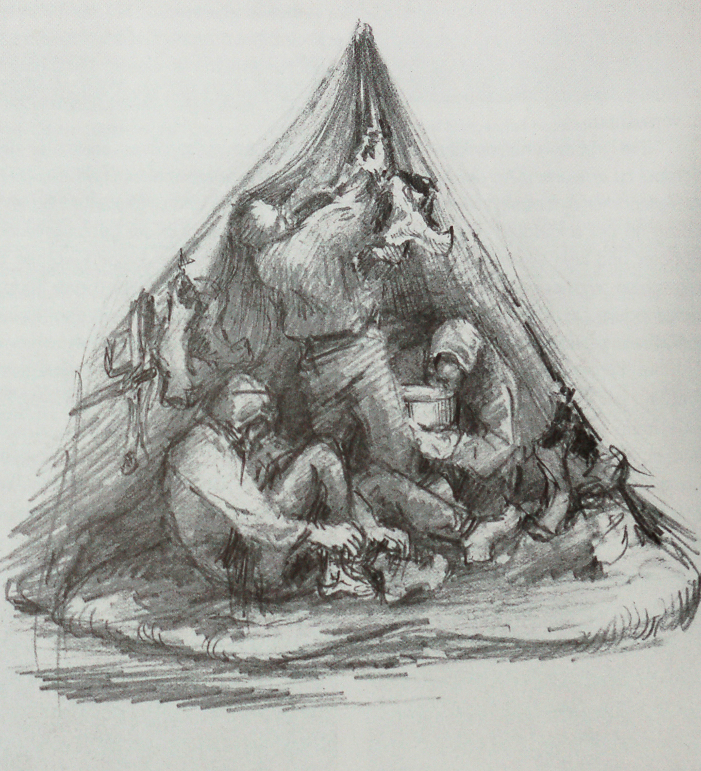 Camping after dark, pencil drawing